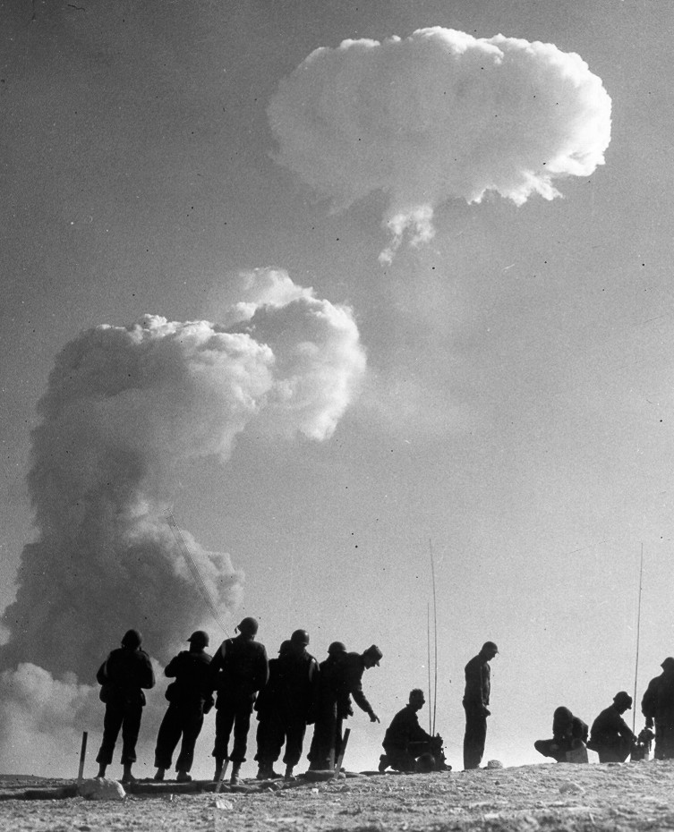 ENCORE Event - Camp Desert Rock, Nevada May 8, 1953, Army communication teams are shown above talking with Battalion Combat Teams who participated in today's atomic blast on the Nevada Proving Grounds. Described as the most spectacular shot of the current series, the blast was dropped by Air Force bombers and over 2,000 Army troops participated by attacking through the area directly under the blast zone.The participation of troops is designed to permit military personnel to witness first hand the effects and blast from an atomic detonation in order that they can learn proper precautionary measures.